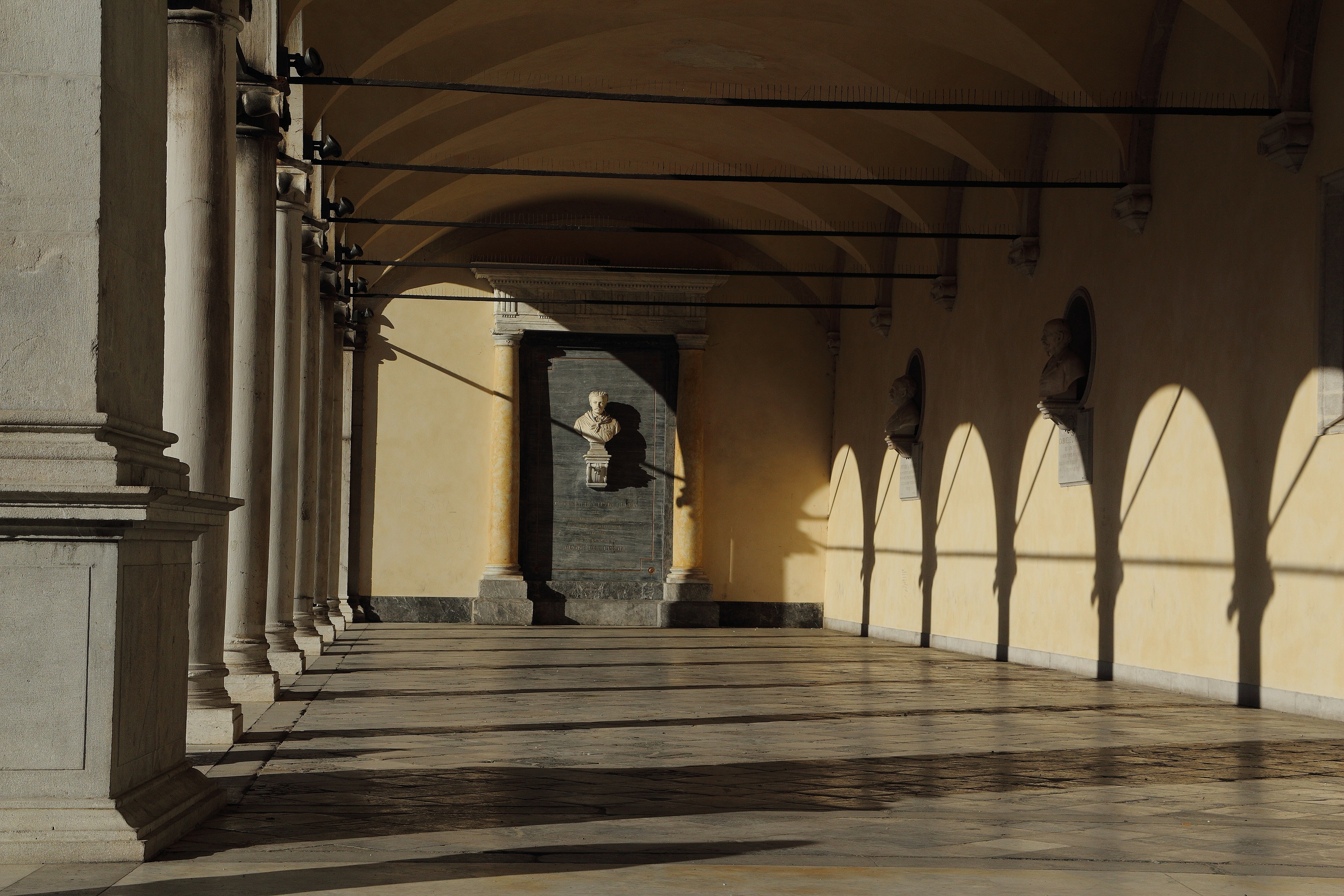 Loggia di San Giovanni